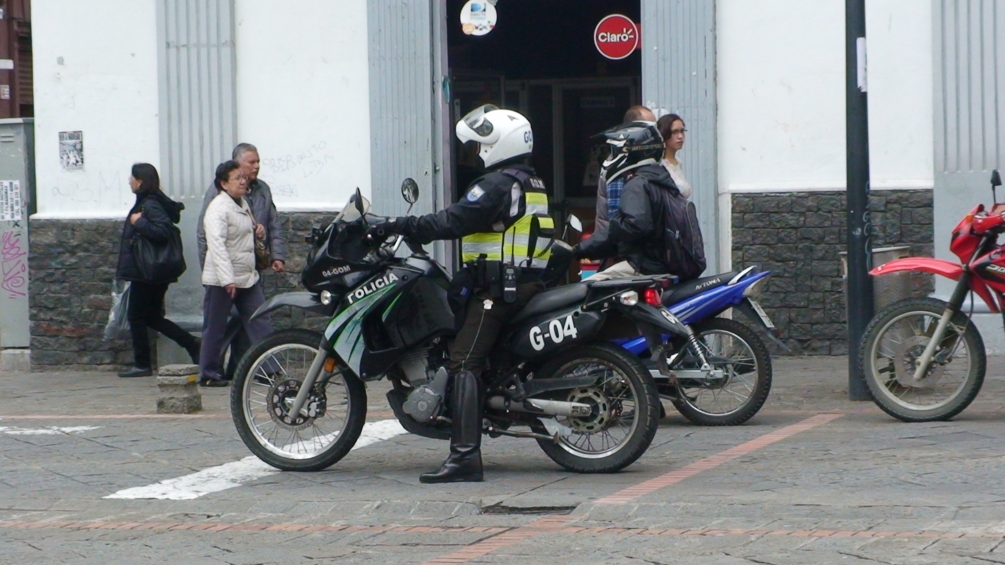 Member of the G.O.M. of the National Police of Ecuador.